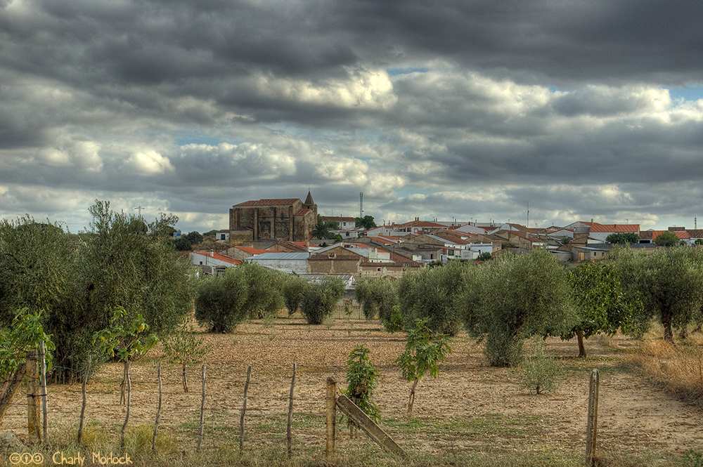 Photograph taken from the lower Aljucén, treated in HDR